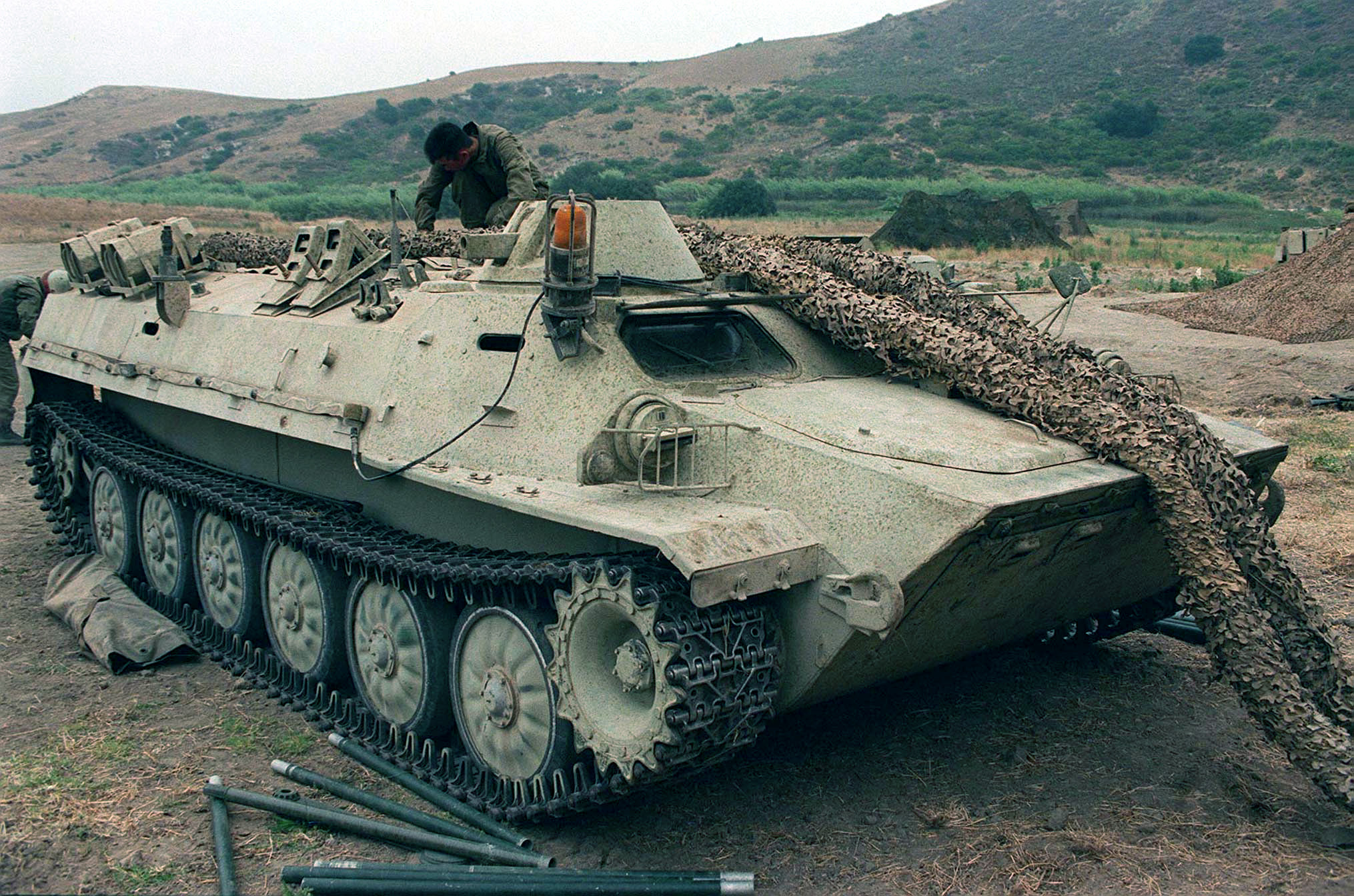 An Opposition Force (OPFOR) Marine from 3d Battalion, 5th Marines, 1st Marine Division, lays cammie netting over a Soviet MT-LB Multipurpose Armored Vehicle in the Las Pulgas lake region of Camp Pendleton, California, during Exercise KERNEL BLITZ '97. KERNEL BLITZ is a bi-annual Commander-in-Chief Pacific (CINCPAC) fleet training exercise (FLEETEX) focused on operational/tactical training of Commander, Third Fleet (C3F)/ I Marine Expeditionary Forces (MEF) and Commander, Amphibious Group 3 (CPG-3)/ 1st Marine Division (MARDIV). KERNEL BLITZ is designed to enhance the training of Sailors and Marines in the complexities of brigade-size amphibious assault operations. Location: MARINE CORPS BASE CAMP PENDLETON, CALIFORNIA (CA) UNITED STATES OF AMERICA (USA)